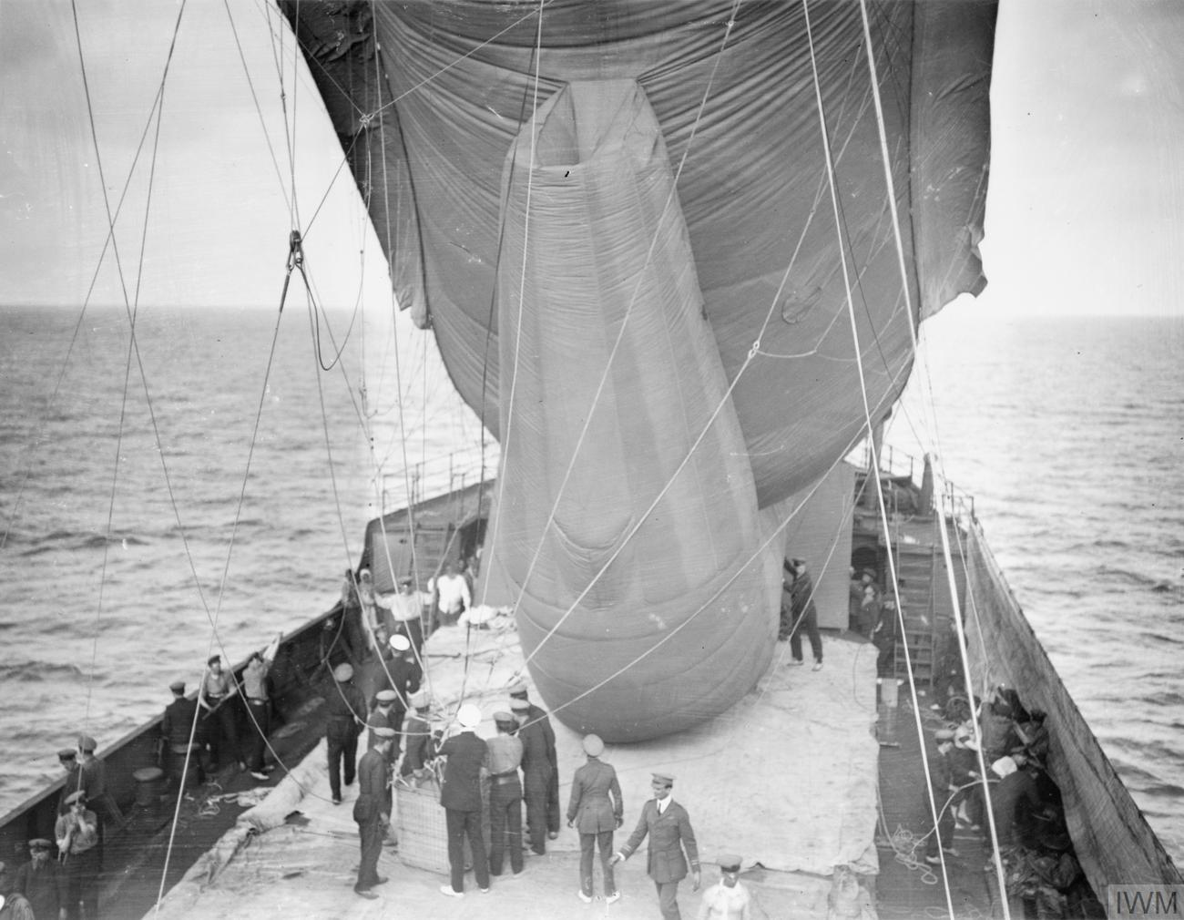 IWM caption : THE ROYAL NAVAL AIR SERVICE (RNAS) 1914-1918 Description: A 'Drachen' type balloon is held steady aboard the SS MANICA, while its observer waits to climb into the basket, off the Gallipoli coast, summer 1915.